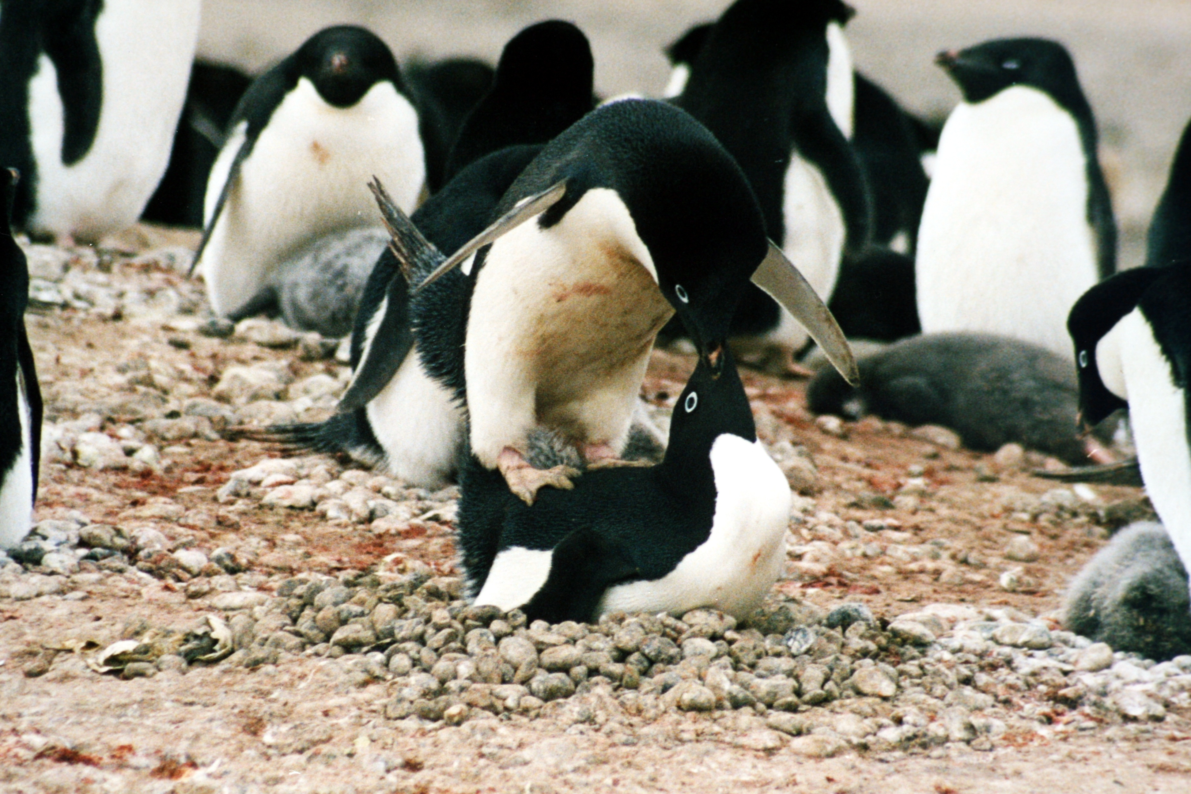 Mating Adelie penguins at Cape Adare in Ross Sea,Antarctica Photograped by Brocken Inaglory in January of 2001